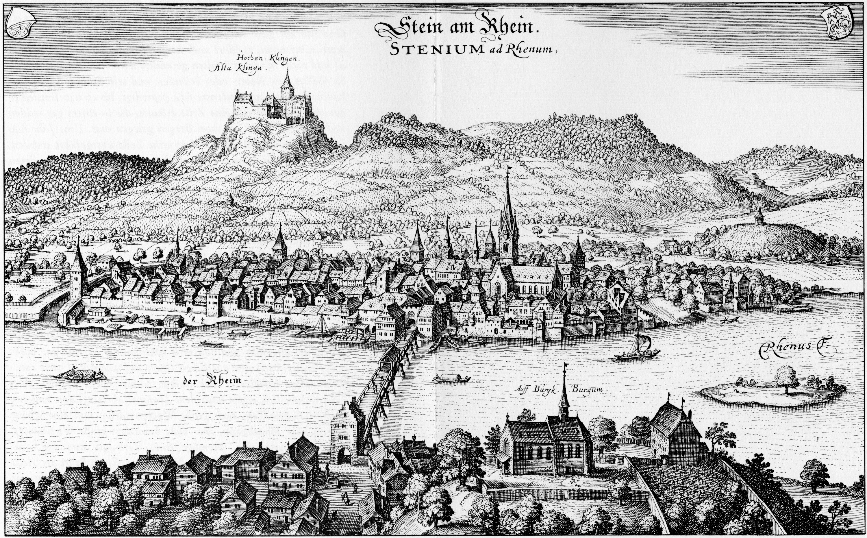 View of the municipal town of Stein am Rhein and the castle Hohenklingen, at that time in the Canton of Zurich, Switzerland, 1642